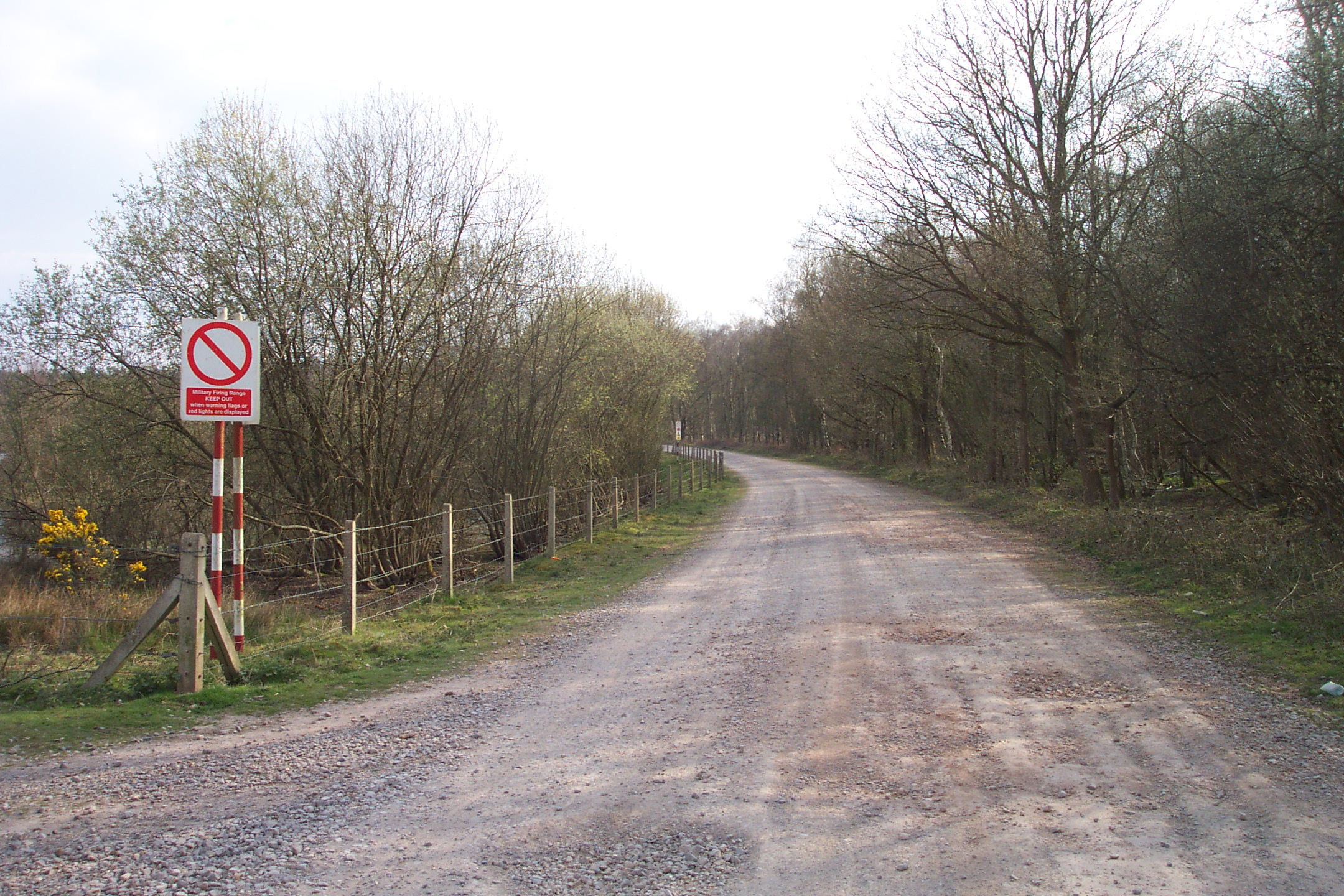 The trackbed of the former Longmoor Military Railway, looking south from the area of Woolmer. Longmoor Camp is located around the curve to the left. The railway was principally used to train soldiers in the operation of railways, and linked Liss with Bordon Camp, with a loop track around the Woolmer Forest area. For more information see the Wikipedia article Longmoor Military Railway.